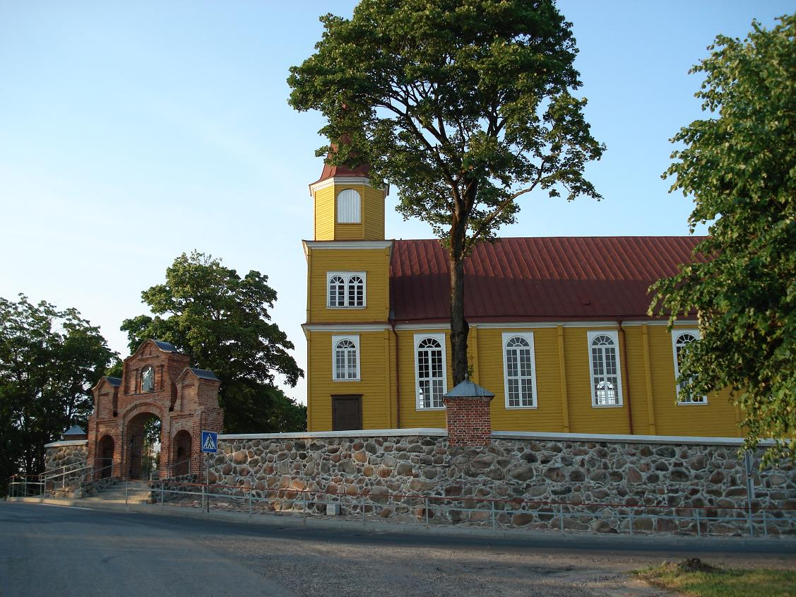 Tverai Church looking from town square